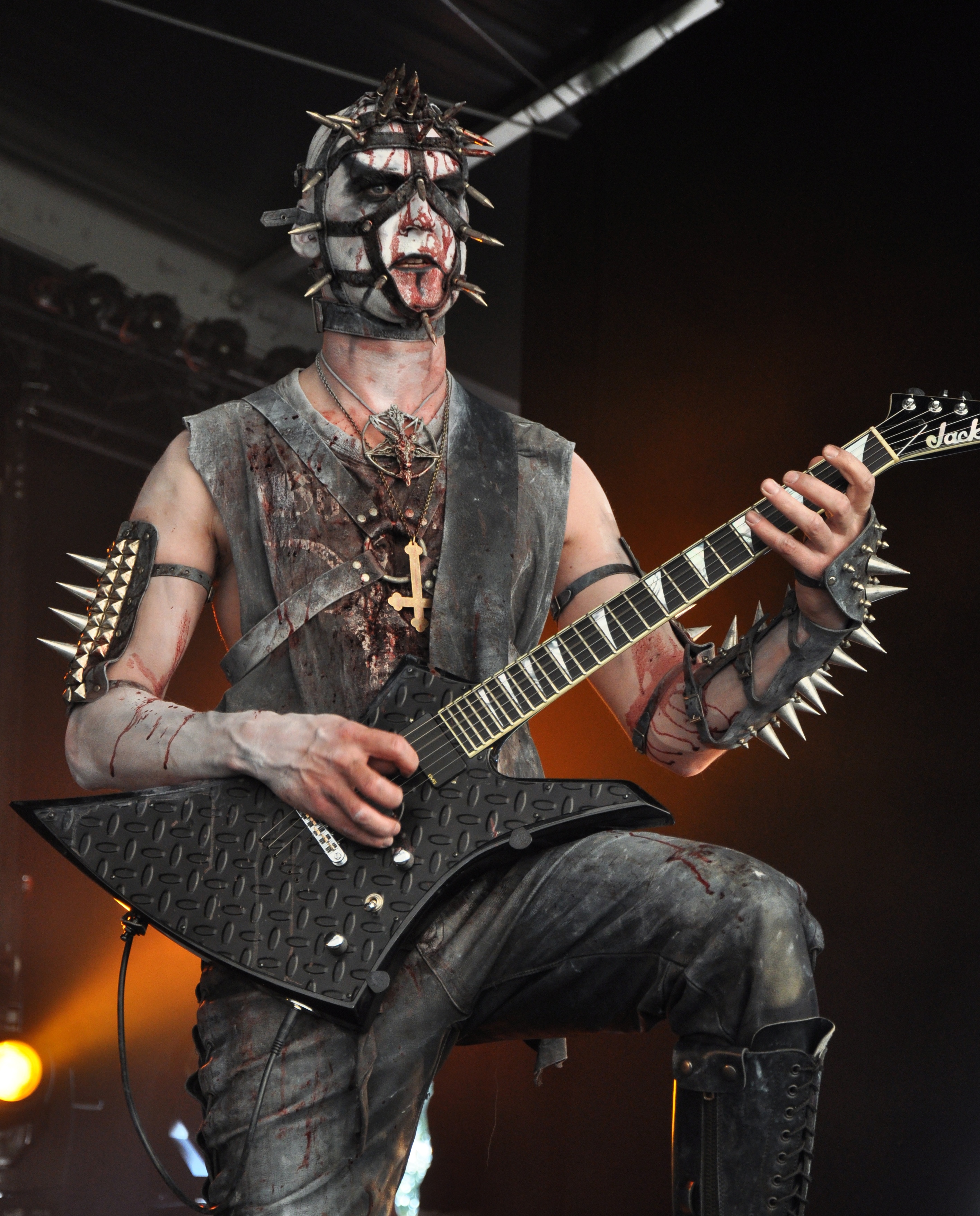 Enzifer, a guitarist of Urgehal, at the Metal Mean Festival, in Méan (Belgium) on the 20th of August 2011.